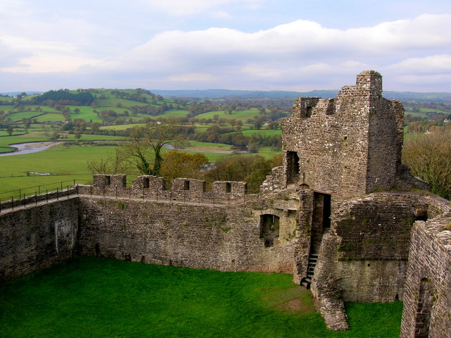 The ruins of Dinefwr Castle overlooking the Tywi Valley